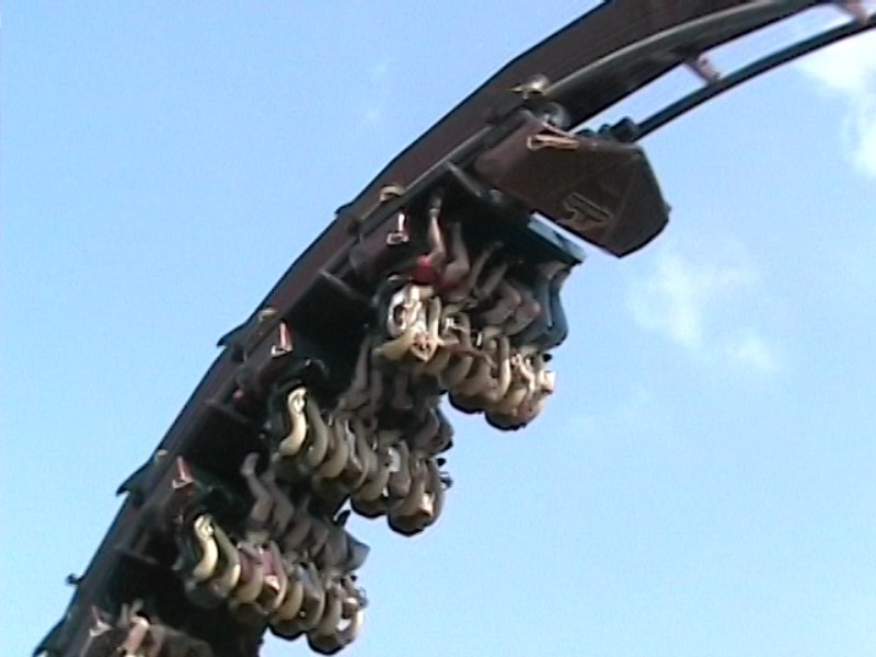 Wildfire